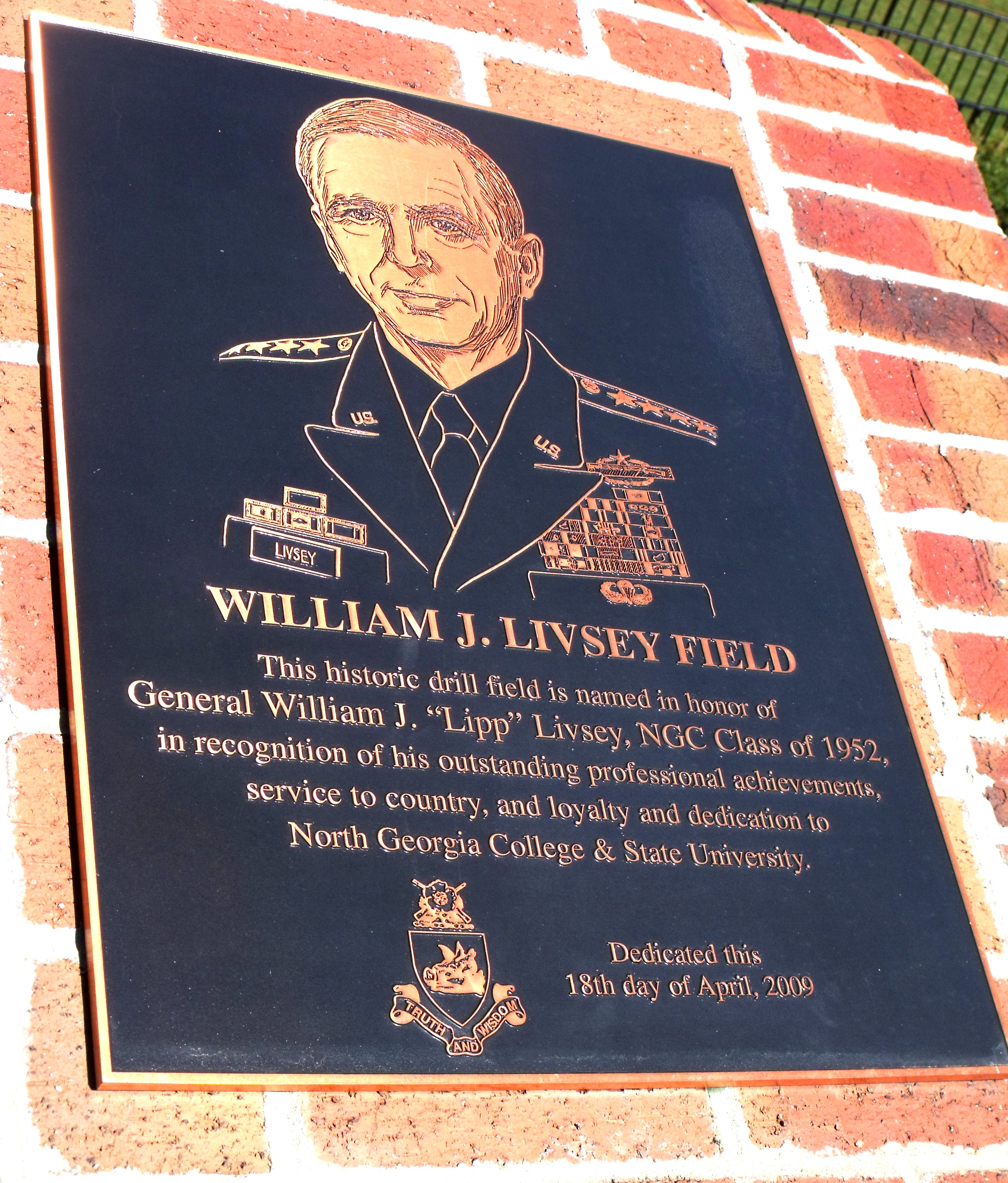 Plaque honoring William J. Livsey after whom UNG's Drill Field is named.